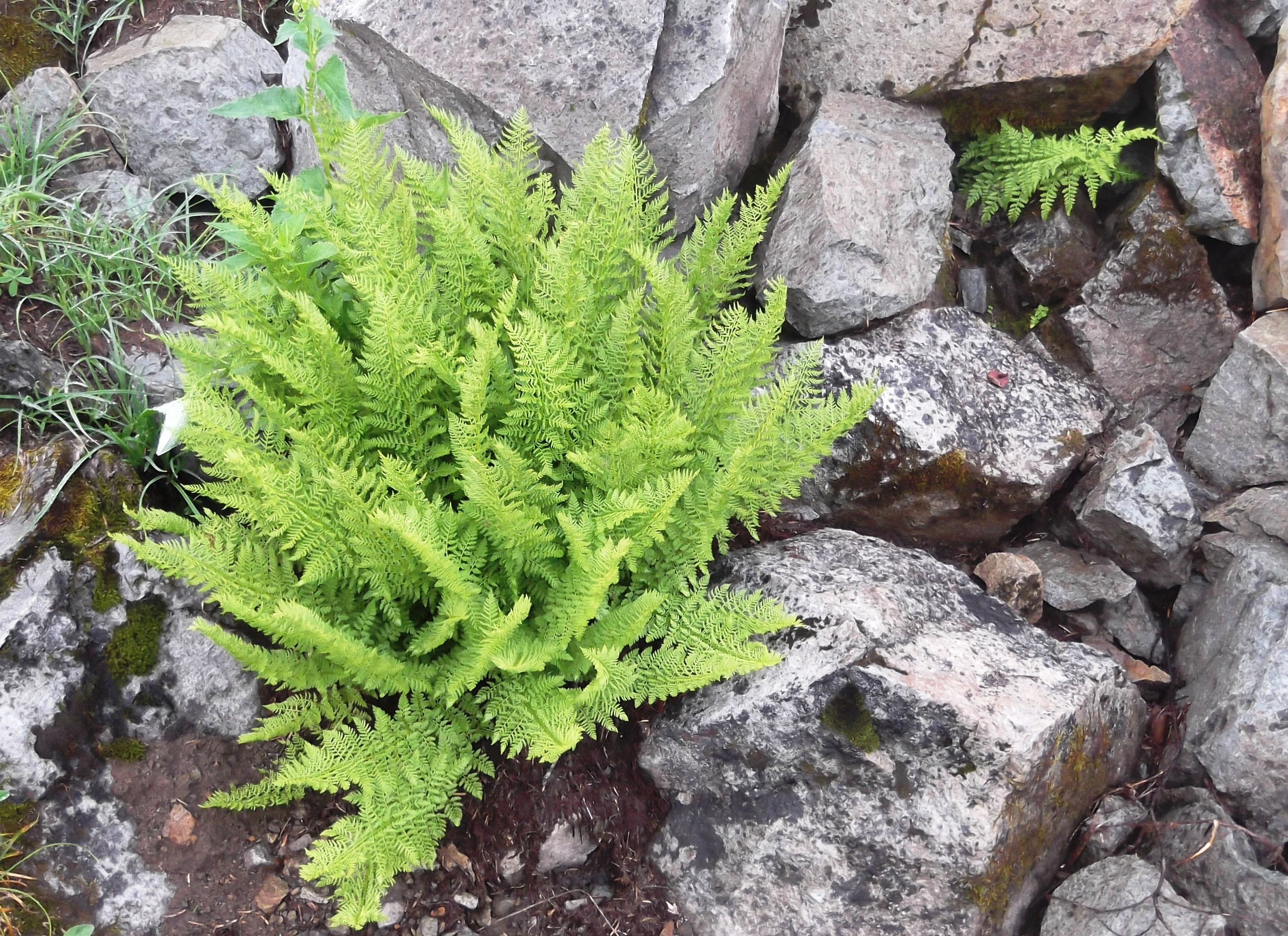 Naches Peak Loop Trail about 1700 meters (5600 feet elevation) William O. Douglas Wilderness 12q3 599